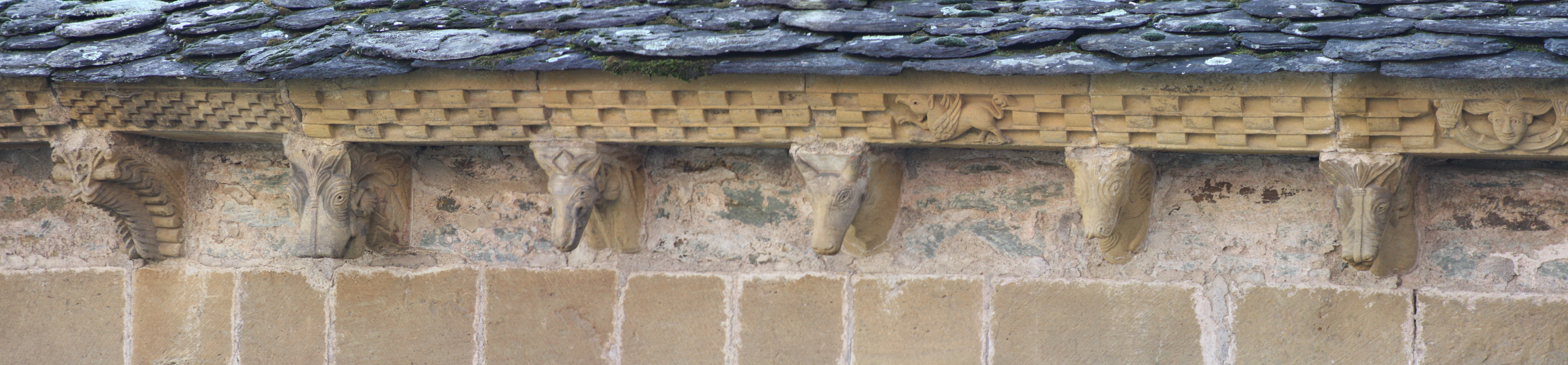 Animals heads-like modillions support flashing decorated with friezes and fantastic creatures..